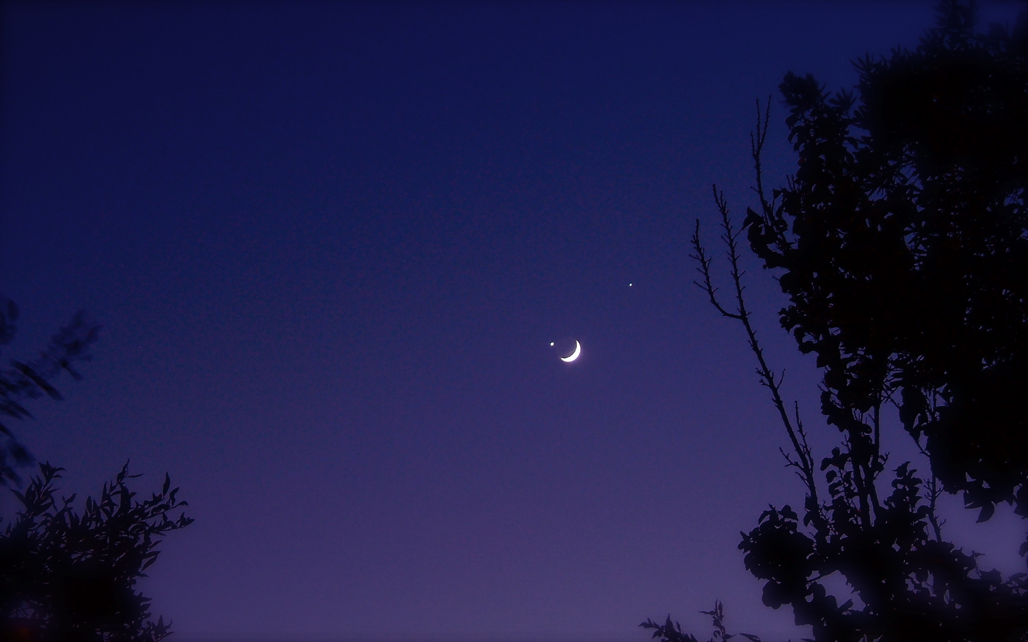 Afternoon Moon with Venus and Jupiter